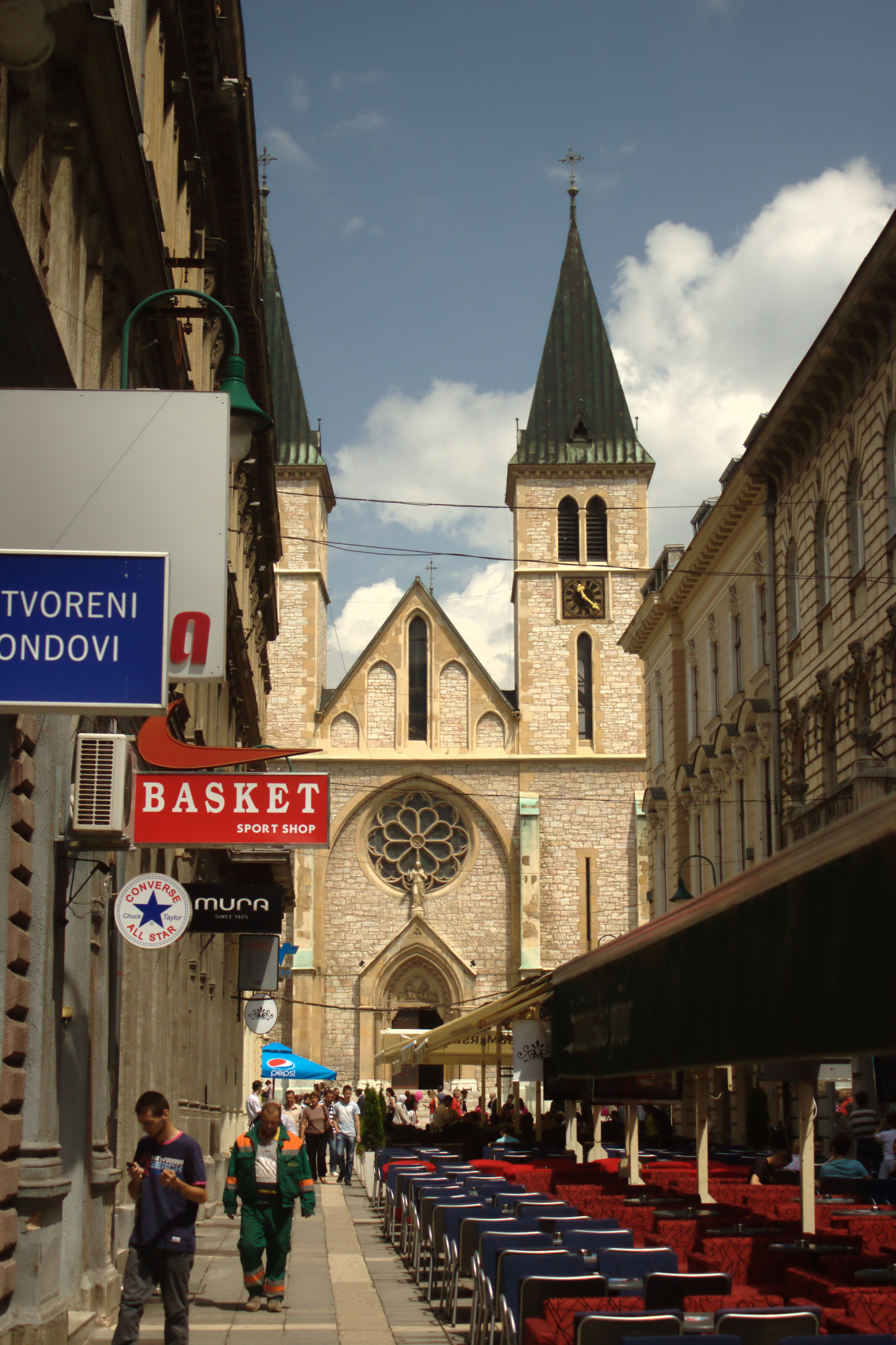 Central part of Sarajevo, BiH, a street connecting the Miljacka river with a square and the church of the sacred heart (can be seen in the background